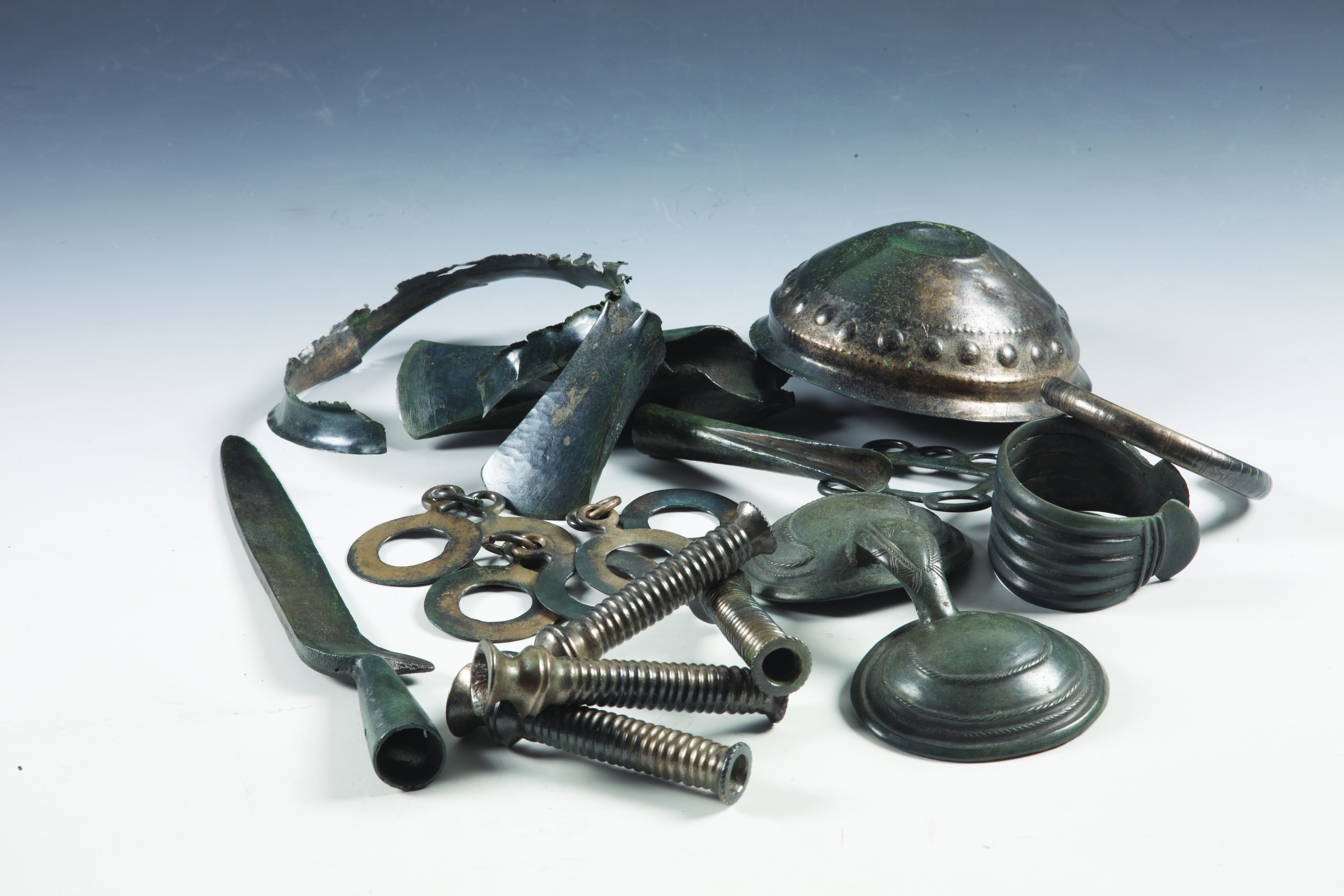 Hoard containing seventeen metal objects from the Bronze Age, discovered in Pierrevillers in 2014. These objects are part of the collections of the Musée de la Cour d'Or.